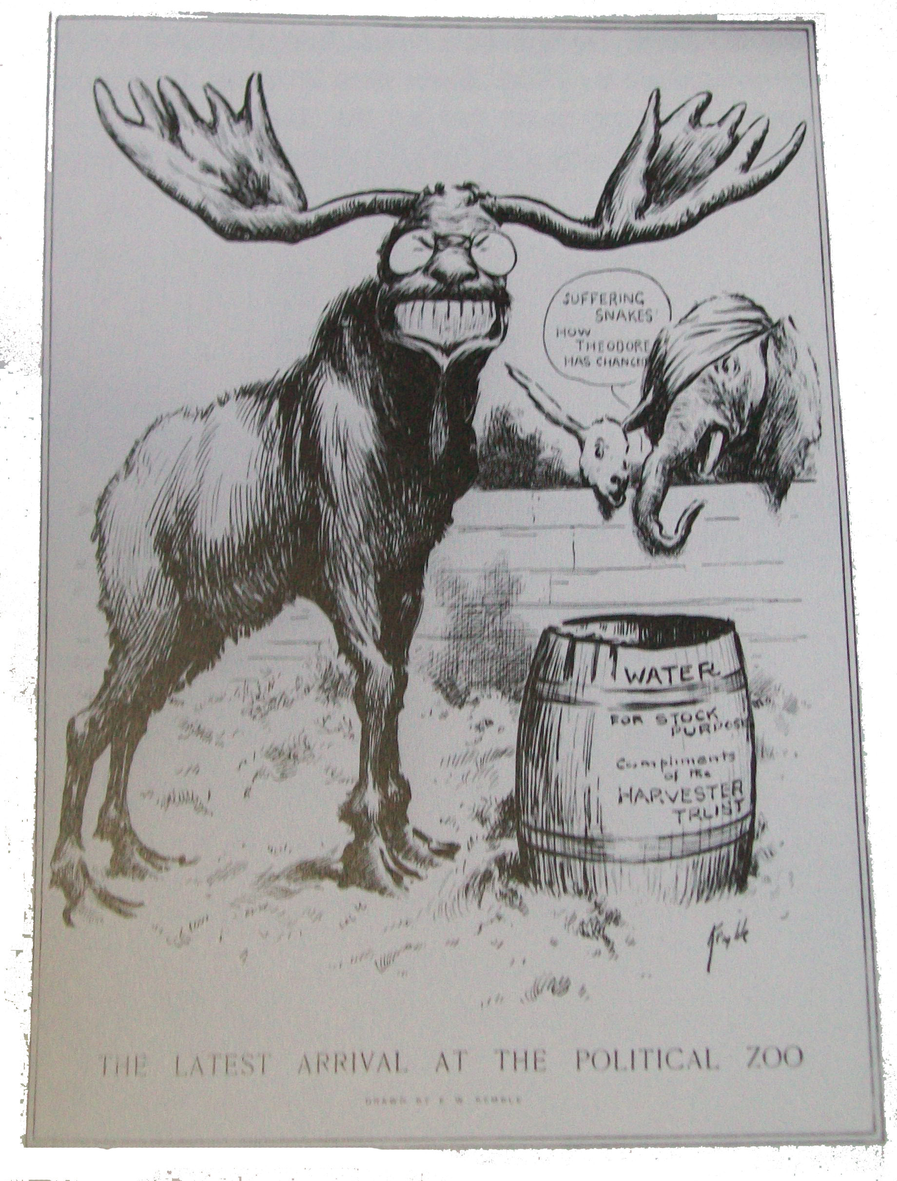 A political cartoon about Theodore Roosevelt and the Progressive Party